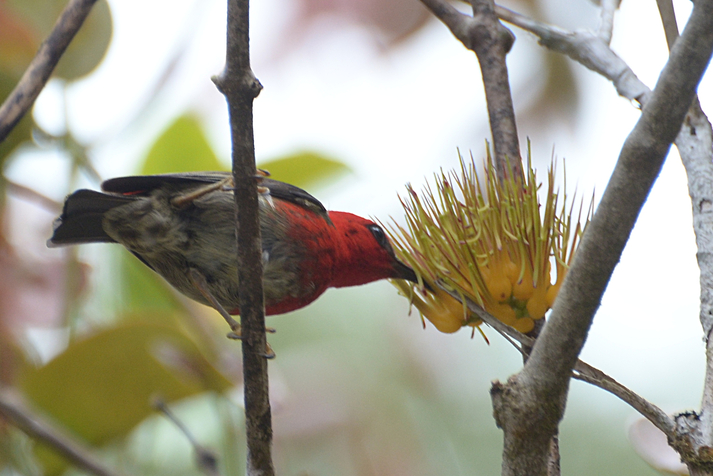 Male of sulawesi myzomela (Myzomela chloroptera) at Mount Mahawu Protected Forest, North SulawesiBahasa Indonesia: Pejantan myzomela sulawesi (Myzomela chloroptera) di Hutan Lindung Gunung Mahawu, Sulawesi Utara